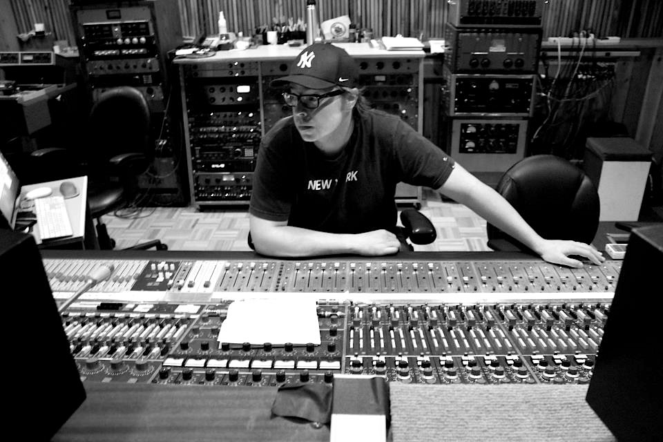 Recording Engineer Luis Bacque in front of the Neve console at Searsound Studio A New York City.